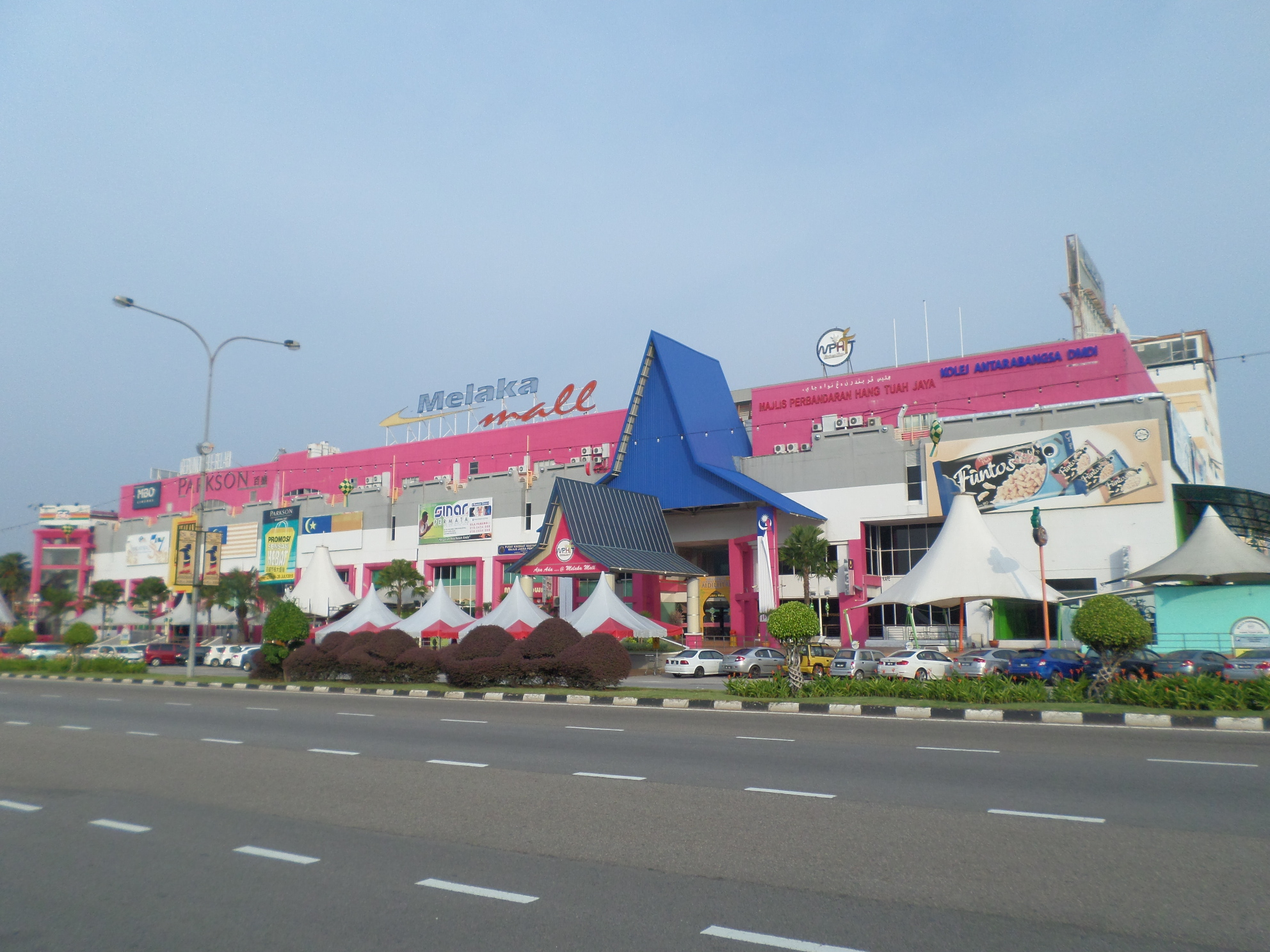 Melaka Mall, Ayer Keroh, Central Melaka, Melaka, MalaysiaBahasa Melayu: Pusat Beli-Belah Melaka, Ayer Keroh, Melaka Tengah, Melaka, Malaysia